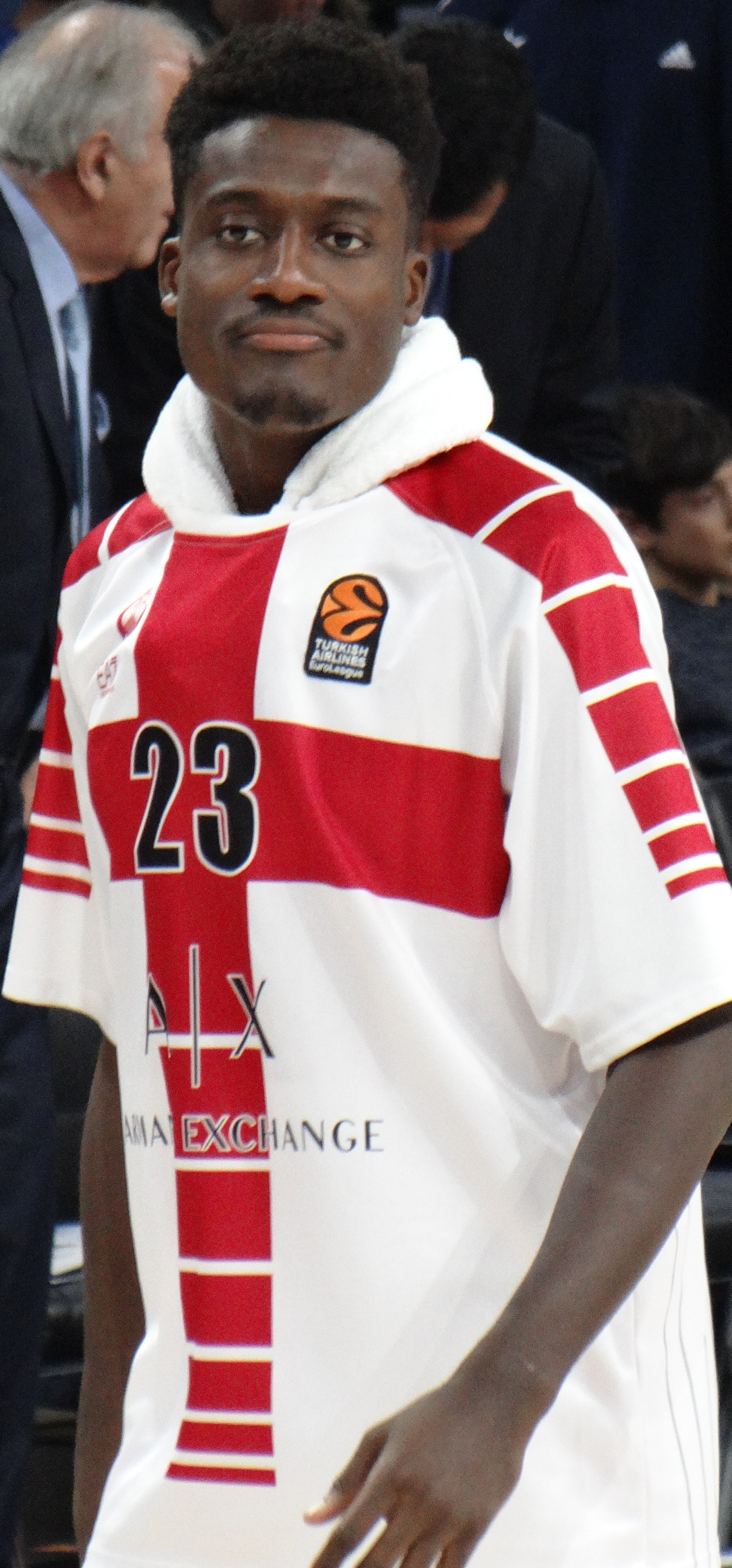 Awudu Abass 23 AX Armani Exchange Olimpia Milan 20171130